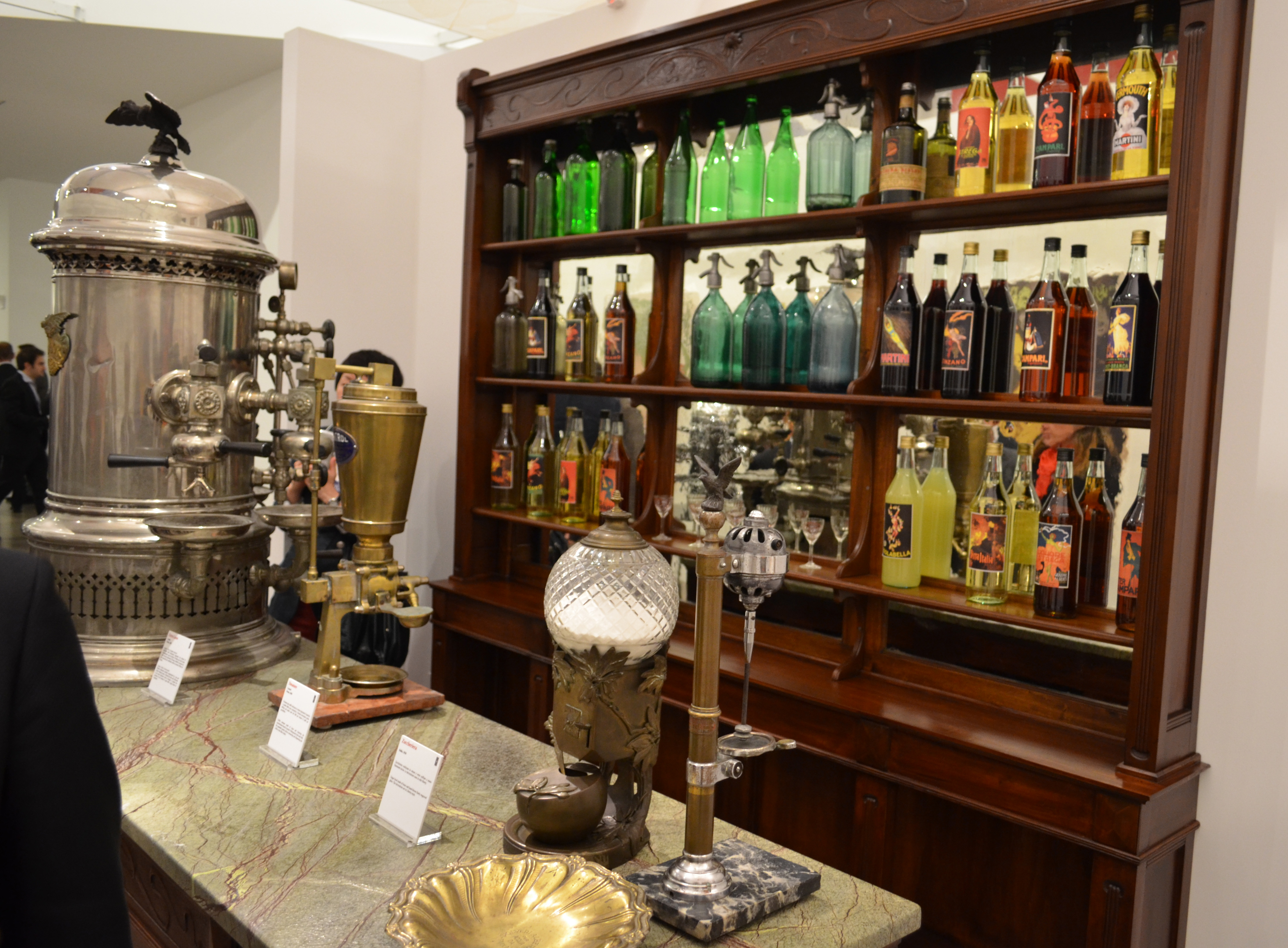 A vintage bar on display in the Coffee Machines Museum (MUMAC), Binasco, Province of Milan - Italy